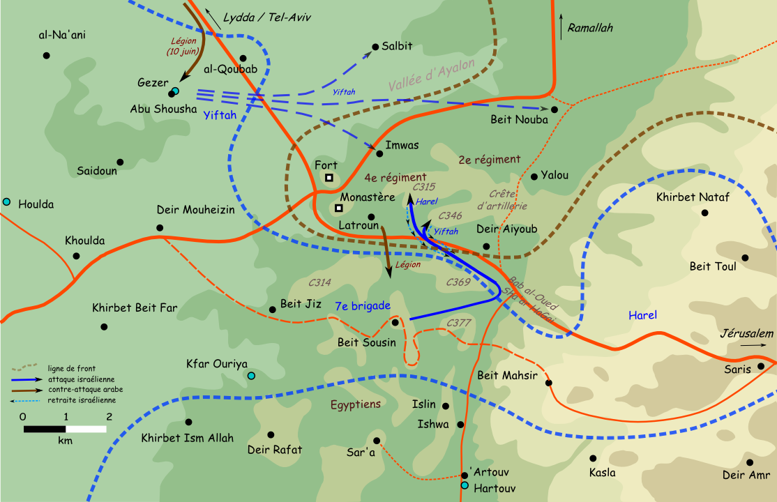 Latrun area (8 june 1948).